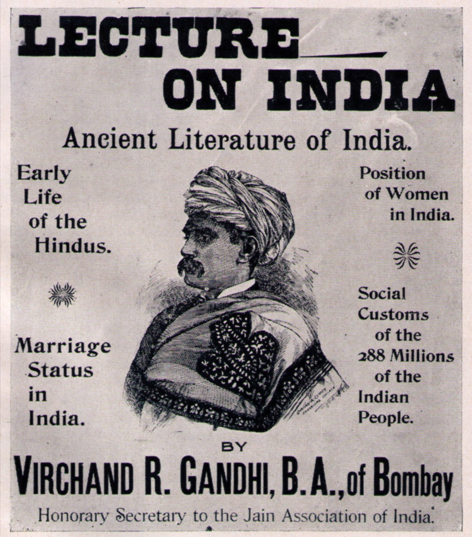 It is a poster announcing lecture by Virchand Gandhi, a Jain Scholar who represented Jainism at first World Parliament of Religions,Chicago-1893. Other information It is a poster announcing lecture by Virchand Gandhi, a Jain Scholar on various subjects in US who represented Jainism at first World Parliament of Religions,Chicago-1893.